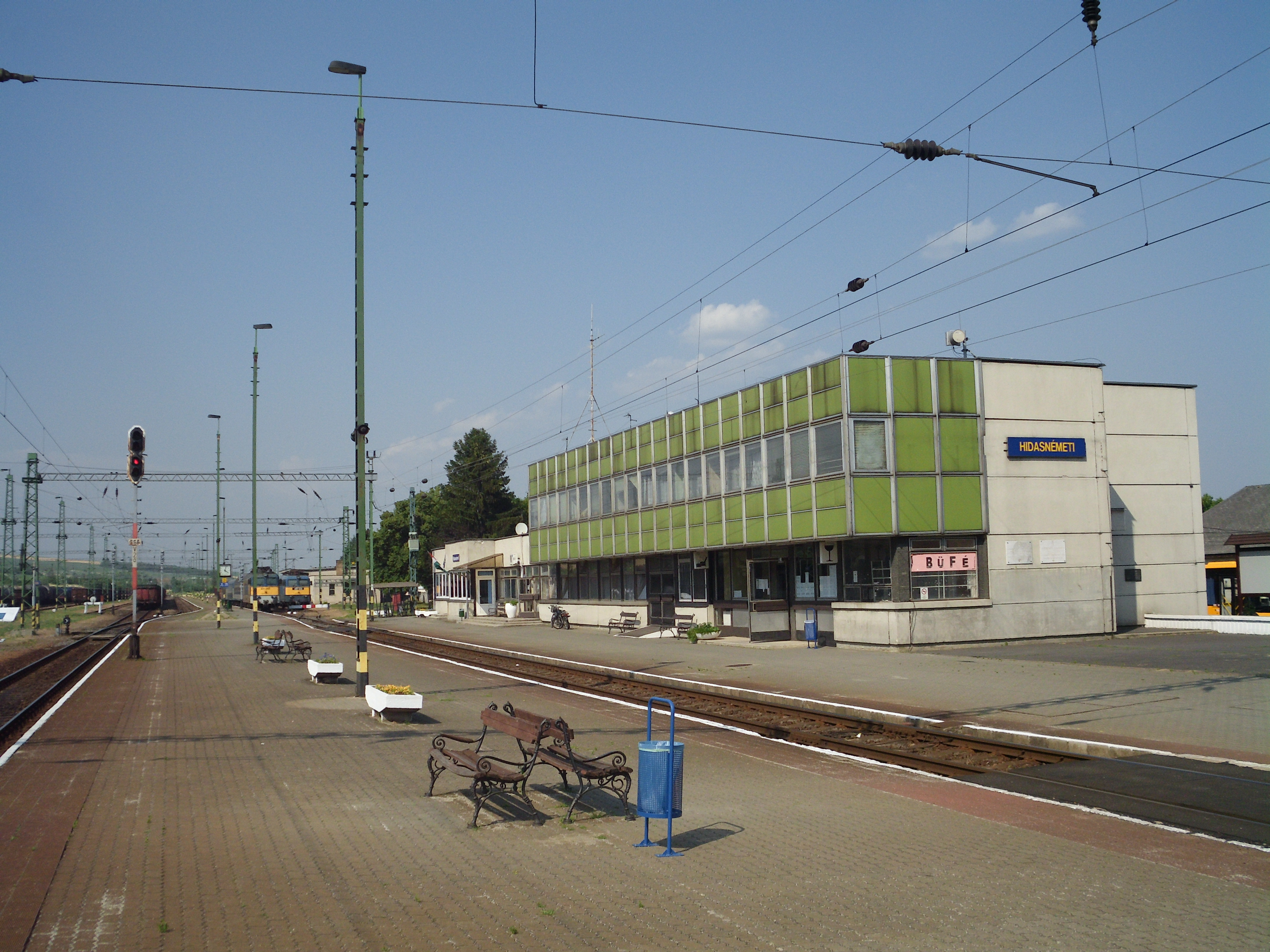 Train station in Hidasnémeti, Hungary.